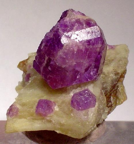 Sodalite (Var.: Hackmanite), Winchite Locality: Koksha Valley (Kokscha; Kokcha), Badakhshan (Badakshan; Badahsan) Province, Afghanistan (Locality at ) Size: 3.6 x 3.5 x 3.2 cm. Hackmanite is a rare sodium-rich variety of sodalite. This superb combination specimen features a 1.8 cm tall, sharp, gemmy and lustrous, pink crystal stalwartly perched upright on a matrix of lustrous, tan winchite. Winchite is a rare amphibole group mineral and these crystals from this locality set the world standard for the species now. Smaller hackmanite crystals are nicely scattered on the winchite. The hackmanite has beautiful orange fluorescence and yellow phosphorescence.